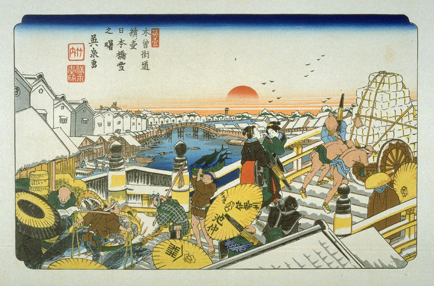 Nihonbashi on the Kisokaido, ukiyo-e prints by Keisai Eisen